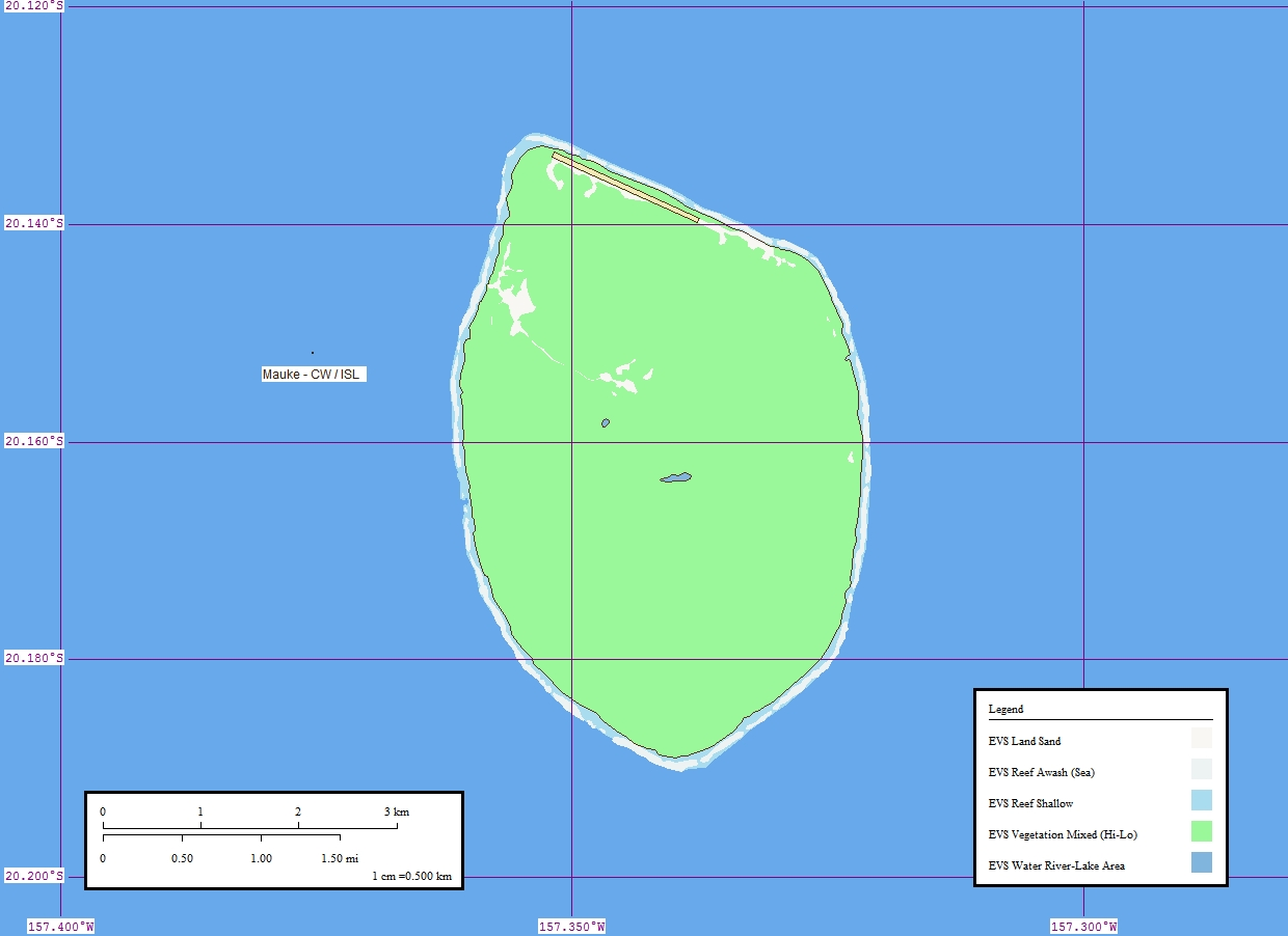 Map of Mauke (Cook Islands)